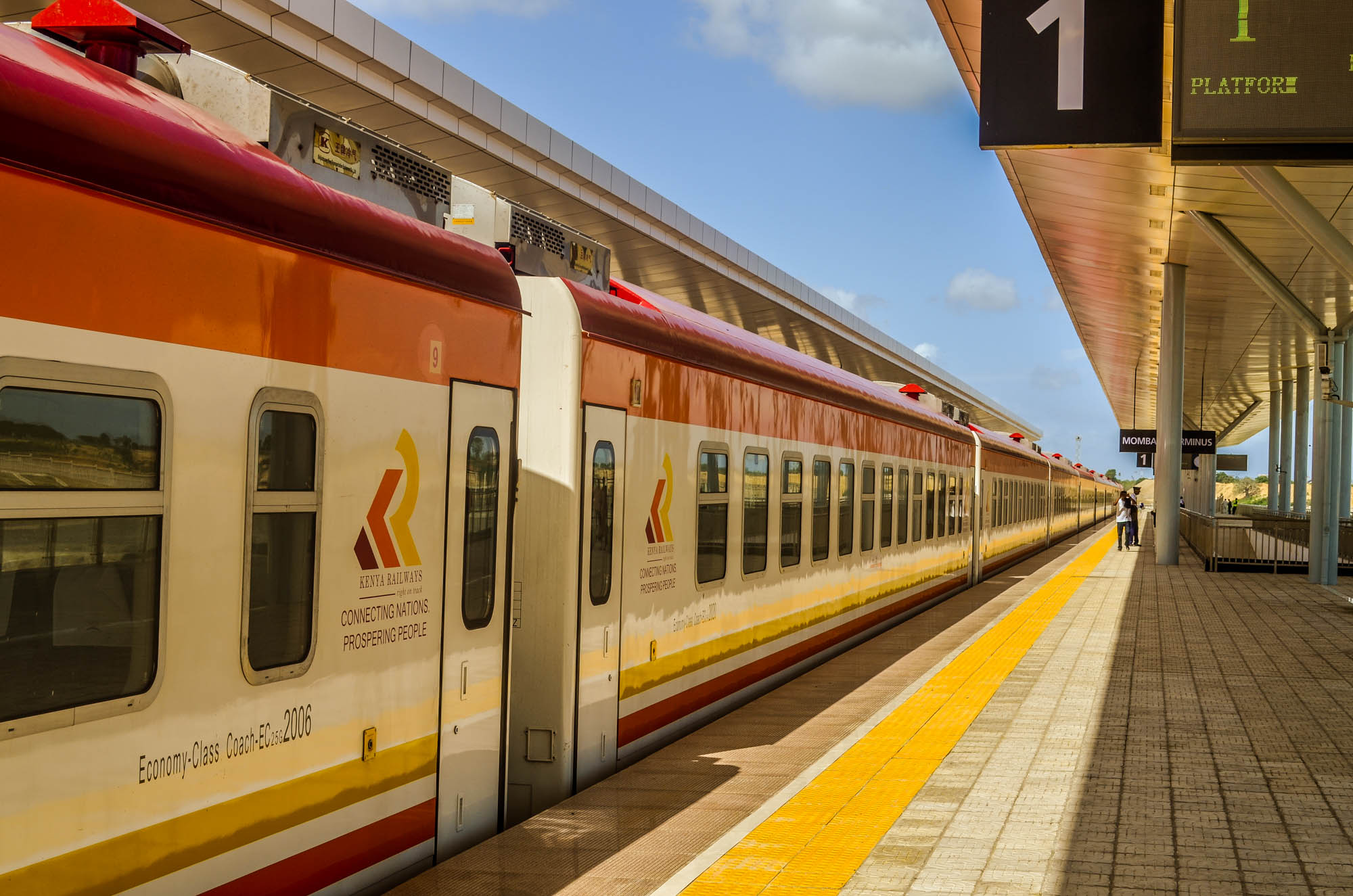 At the picture is one of the two passenger trains leave the station everyday, an inter-county train that stops at all stations and an express train that goes directly to Nairobi Terminus at Syokimau. This is an image with the theme "Africa on the Move or Transport" from: Kenya